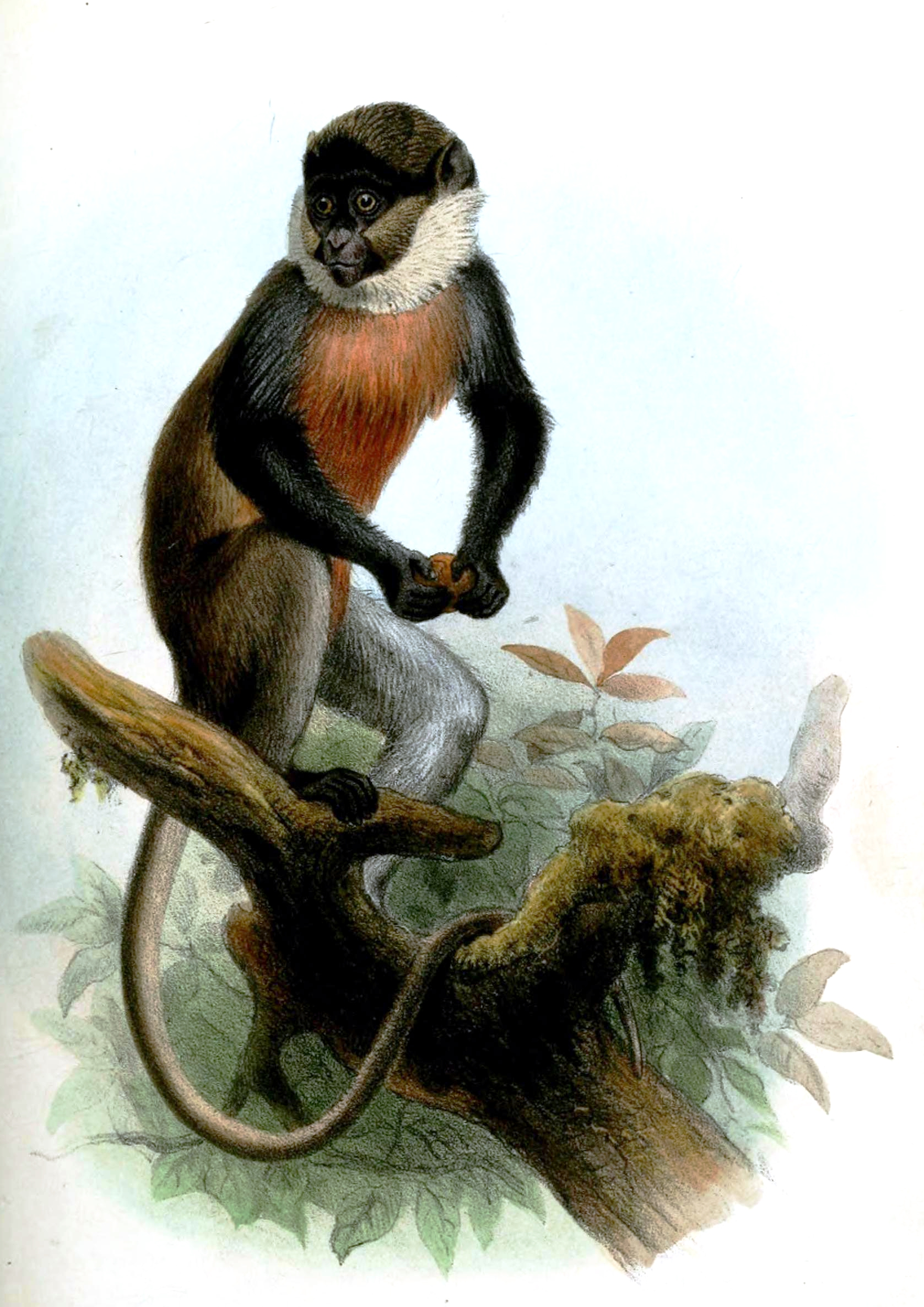 White-throated Guenon